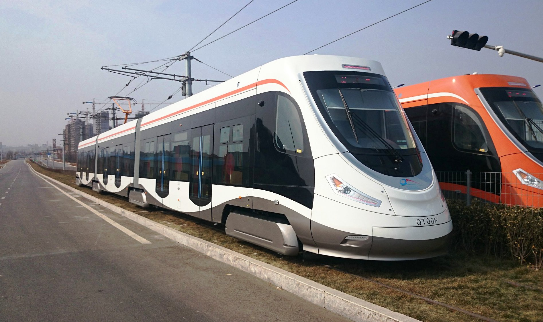 Qingdao Tram, Line Chengyang QT006